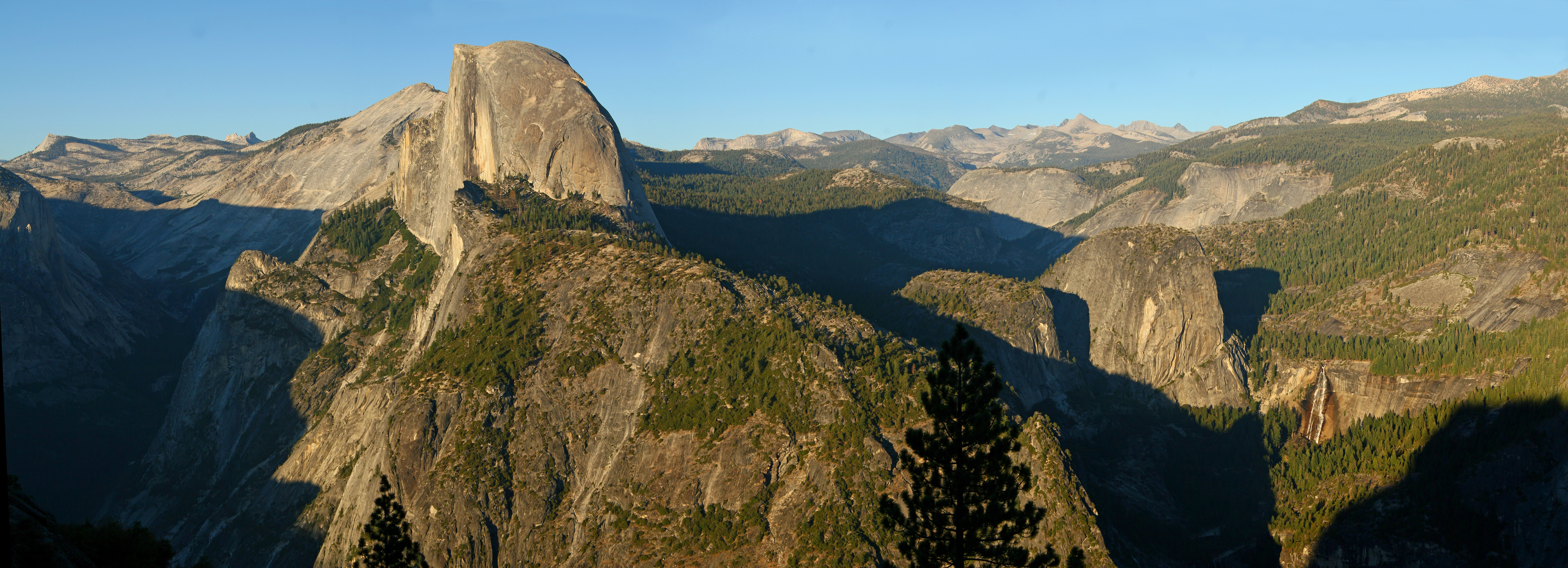 View from Glacier point, Yosemite, California, USA